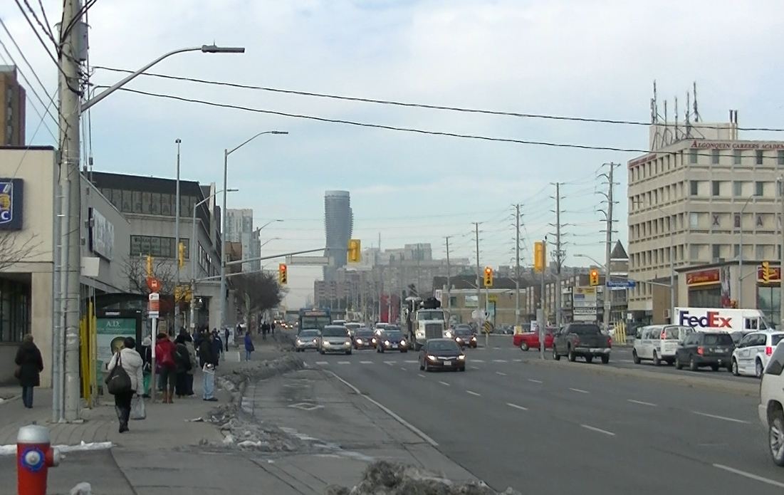 Hurontario St. Looking north from Dundas St.